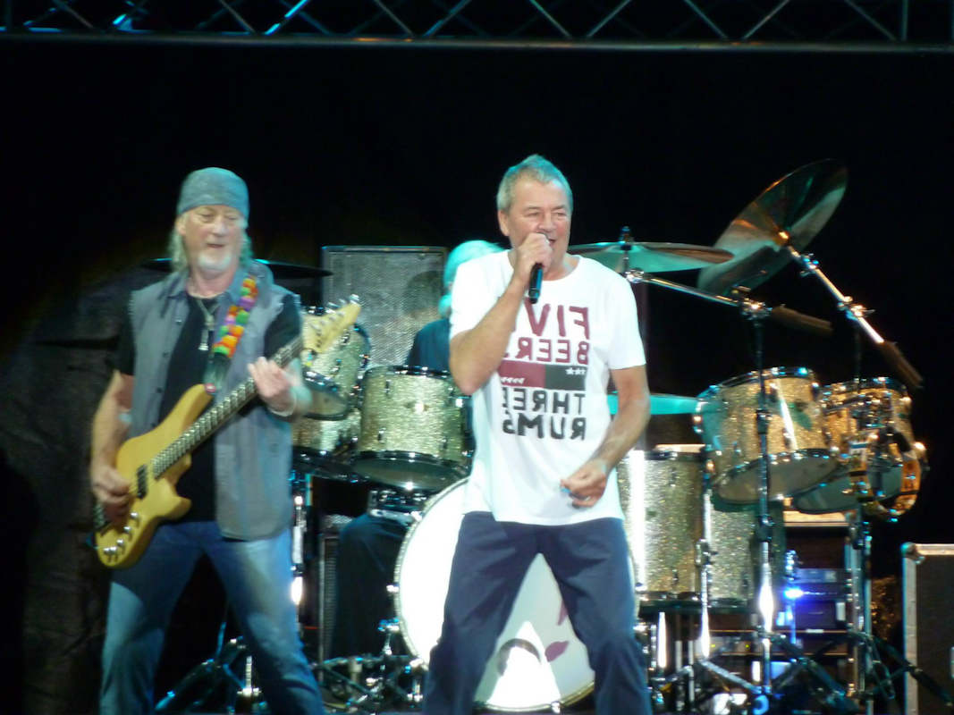 Roger Glover and Ian Gillan with the British rock band Deep Purple performing at Kavarna Rock Fest 2013, Bulgaria.